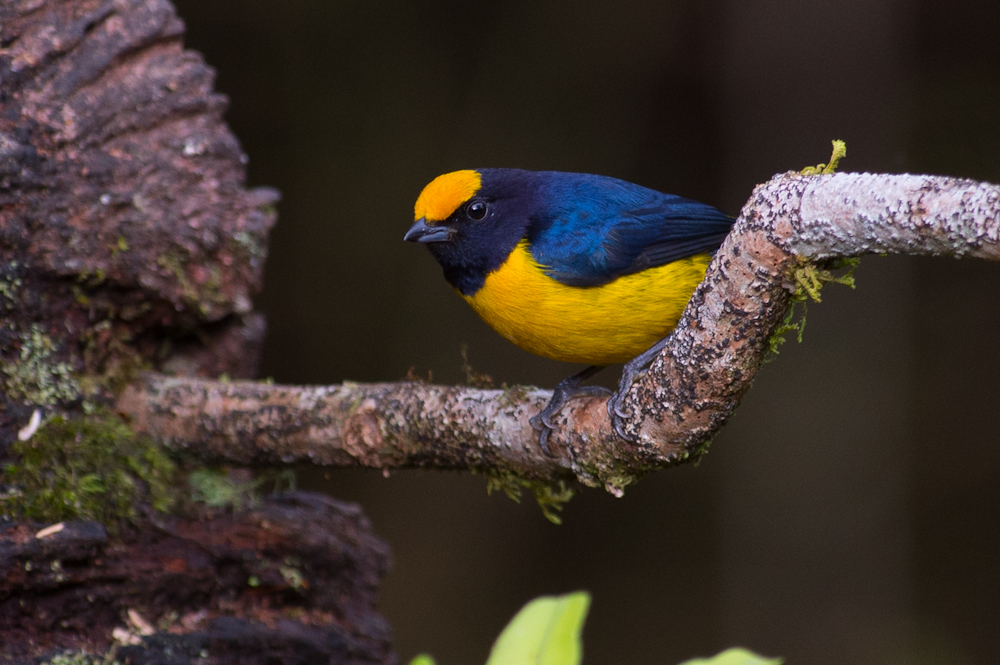 Euphonia xanthogaster, Orange-bellied Euphonia